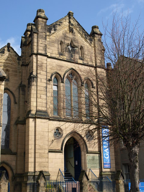 Bailiffgate Museum and Gallery, Alnwick, Northumberland, seen from the southwest. Built in 1856 as the Roman Catholic church of St Mary.